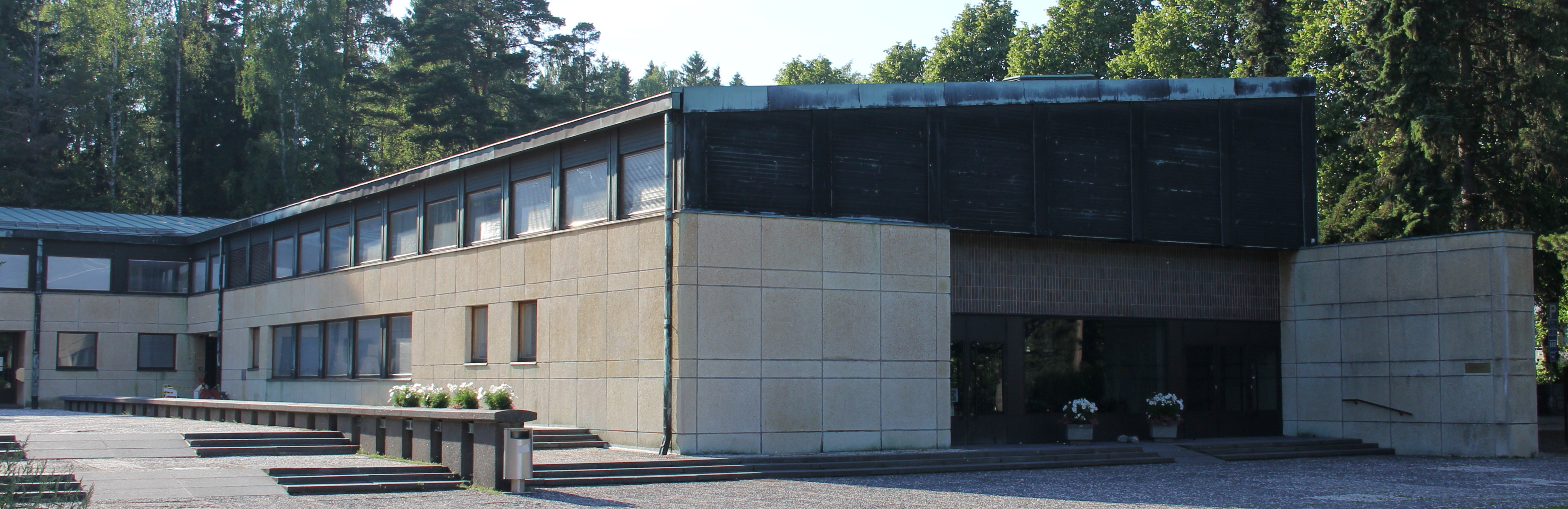 S:t Jakobs church, Lauttasaari, Helsinki, Finland. - Designed by architects Marja and Keijo Petäjä, completed in 1958. - Main entrance.